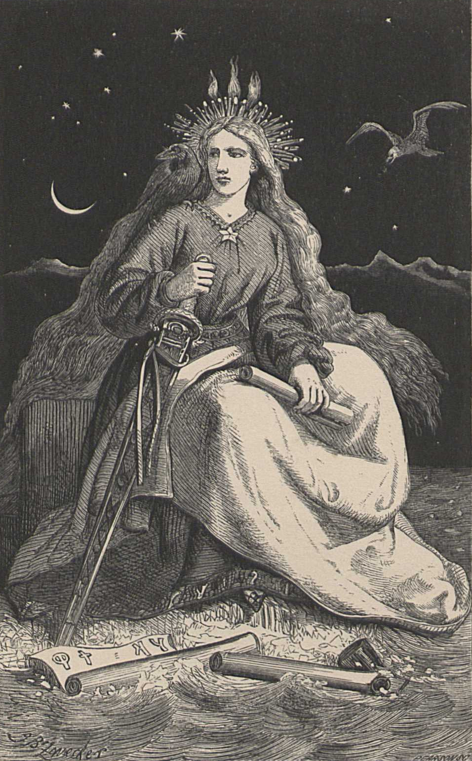 This engraving shows "the woman of the mountain", an Icelandic nationalist symbol, first appearing as a frontispiece to the English translation of Jón Árnason's collection of Icelandic folktales, Icelandic Legends (Collected by Jón Arnason), printed in London by Longmans, Green, and Co in 1866. The drawing was made by specification of Eiríkur Magnússon who was one of the translators.